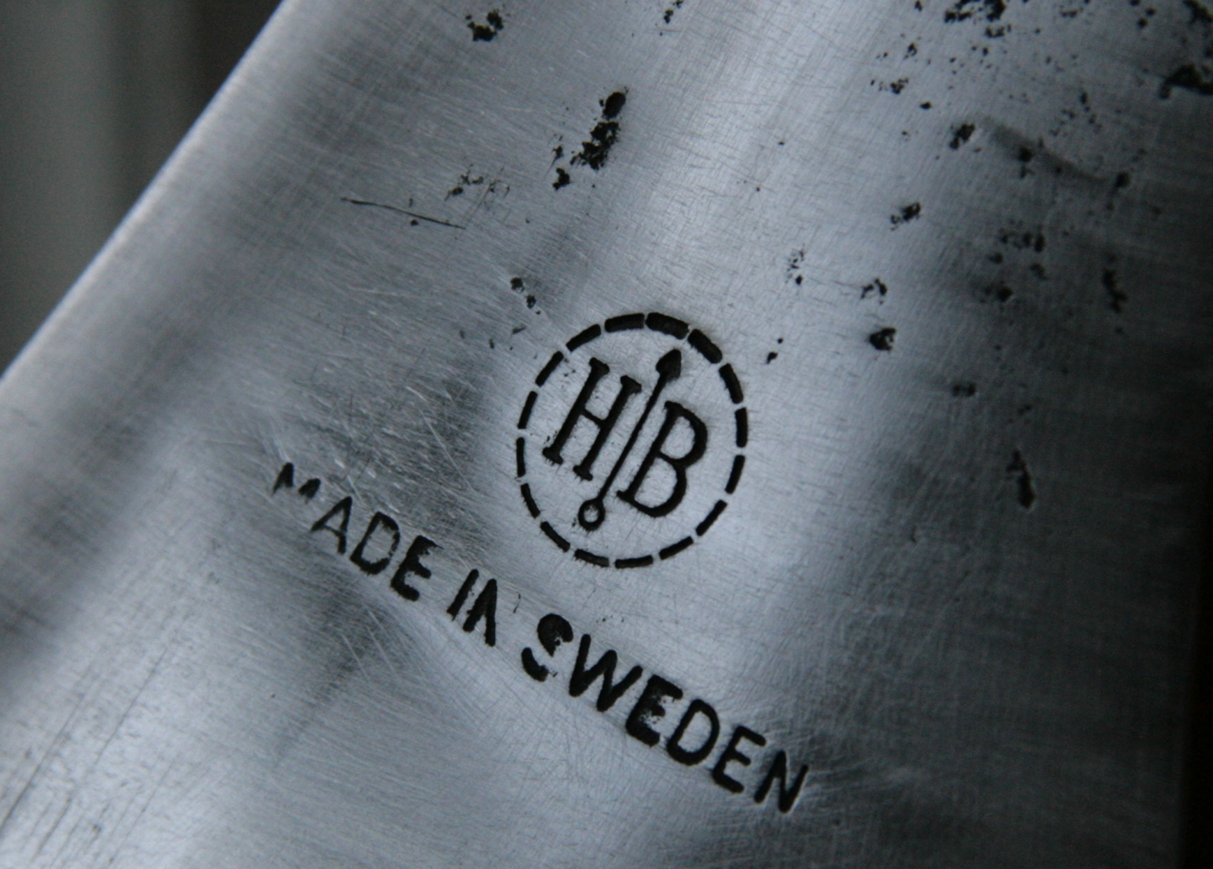 The logo from the ironwork "Hults bruk" in Sweden, in this case on an ax